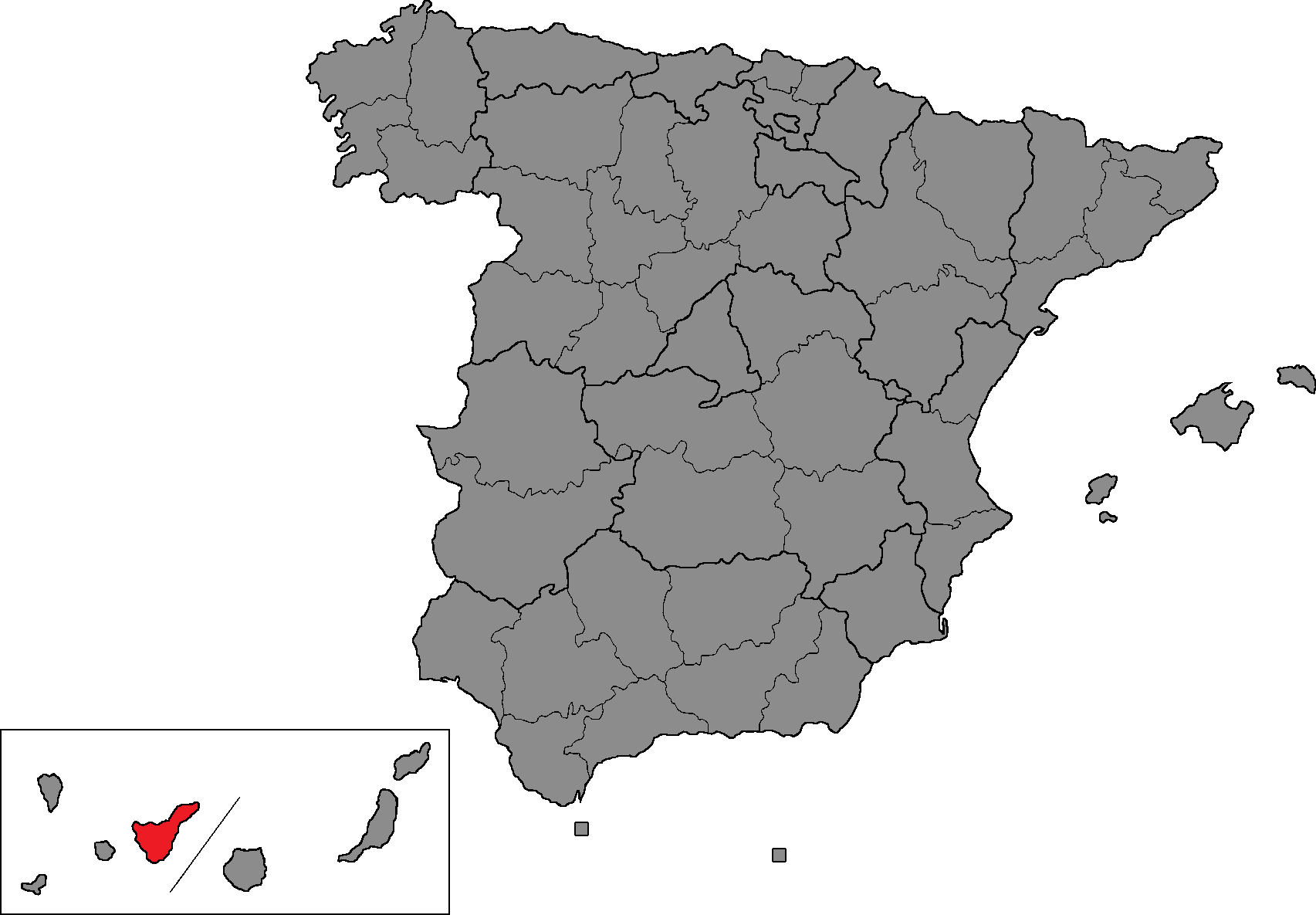 Spanish Senate district of Tenerife.